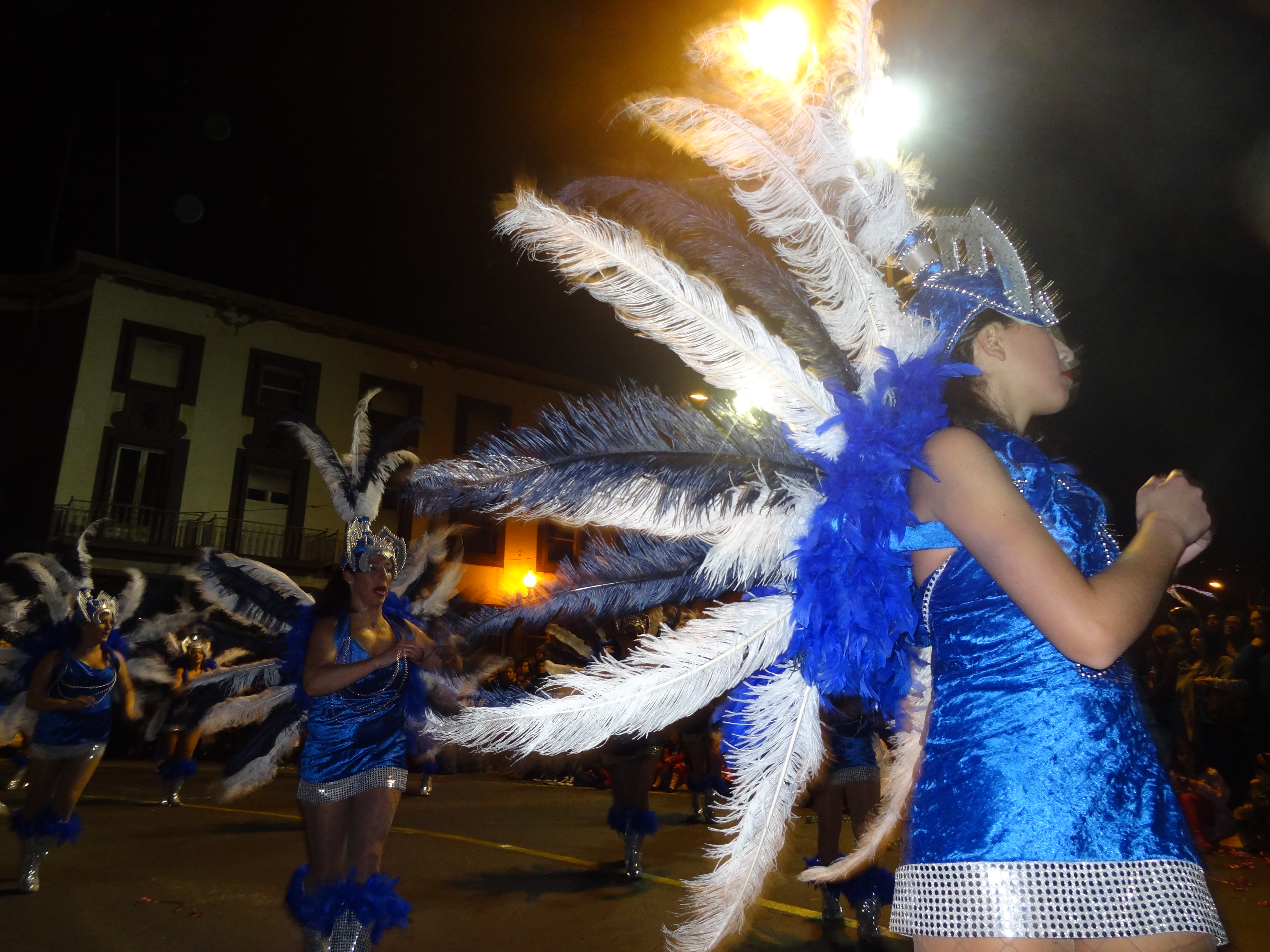 This is a photograph from the 2013 rendition of Carnival of Madeira which happens on the main street near the harbor in Funchal